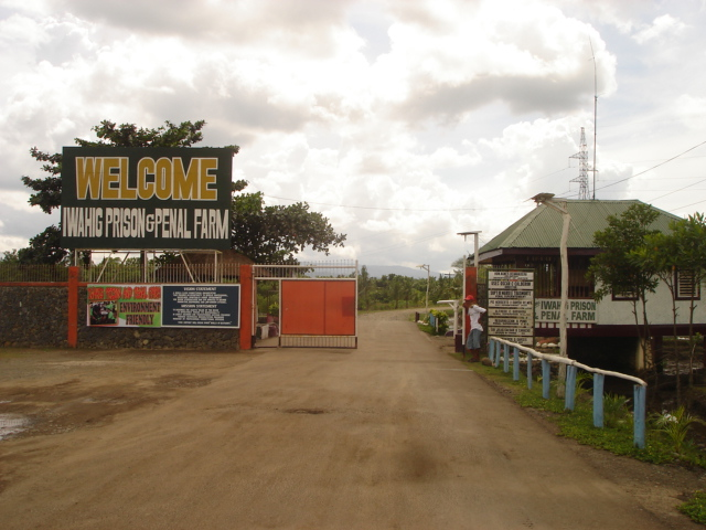 Bikol Central: Iwahig Prisons Farm